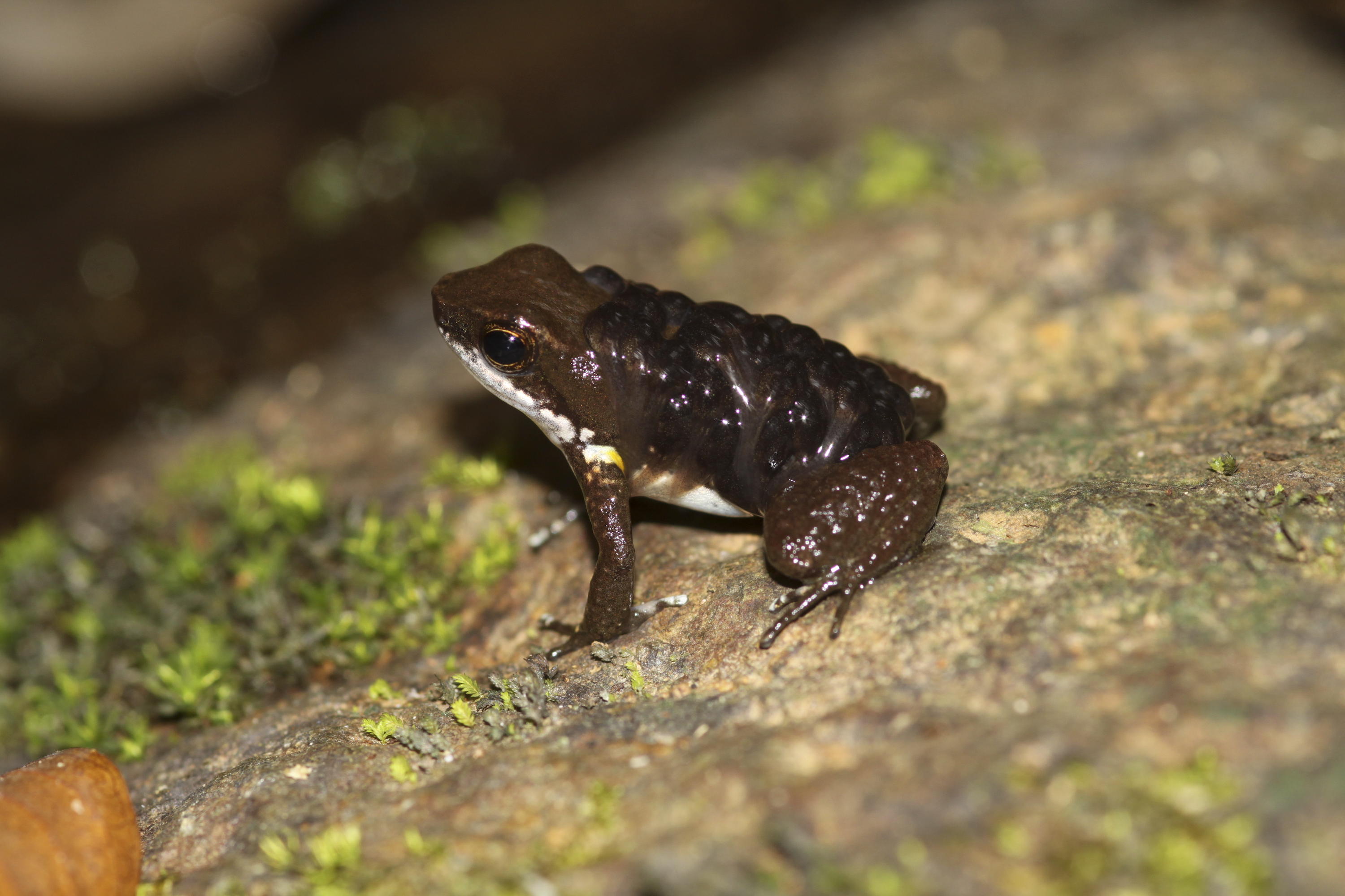 This female Colostethus panamensis was carrying tadpoles to the stream on her back. This very stream dependent frog is threatened by Chytrid fungus and has an incredible set of interesting behaviors, a stream full of these sounds like a stream chirruping with birds... (Panama)